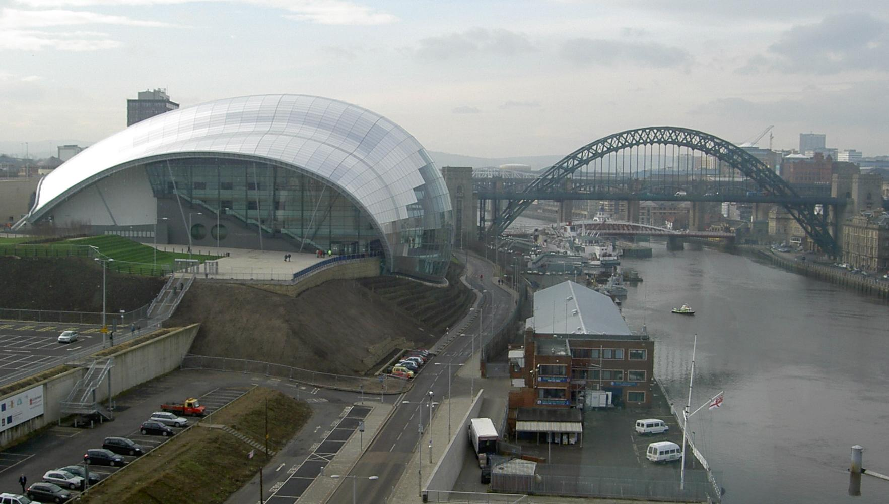 Tyne Bridge and the Sage Gateshead